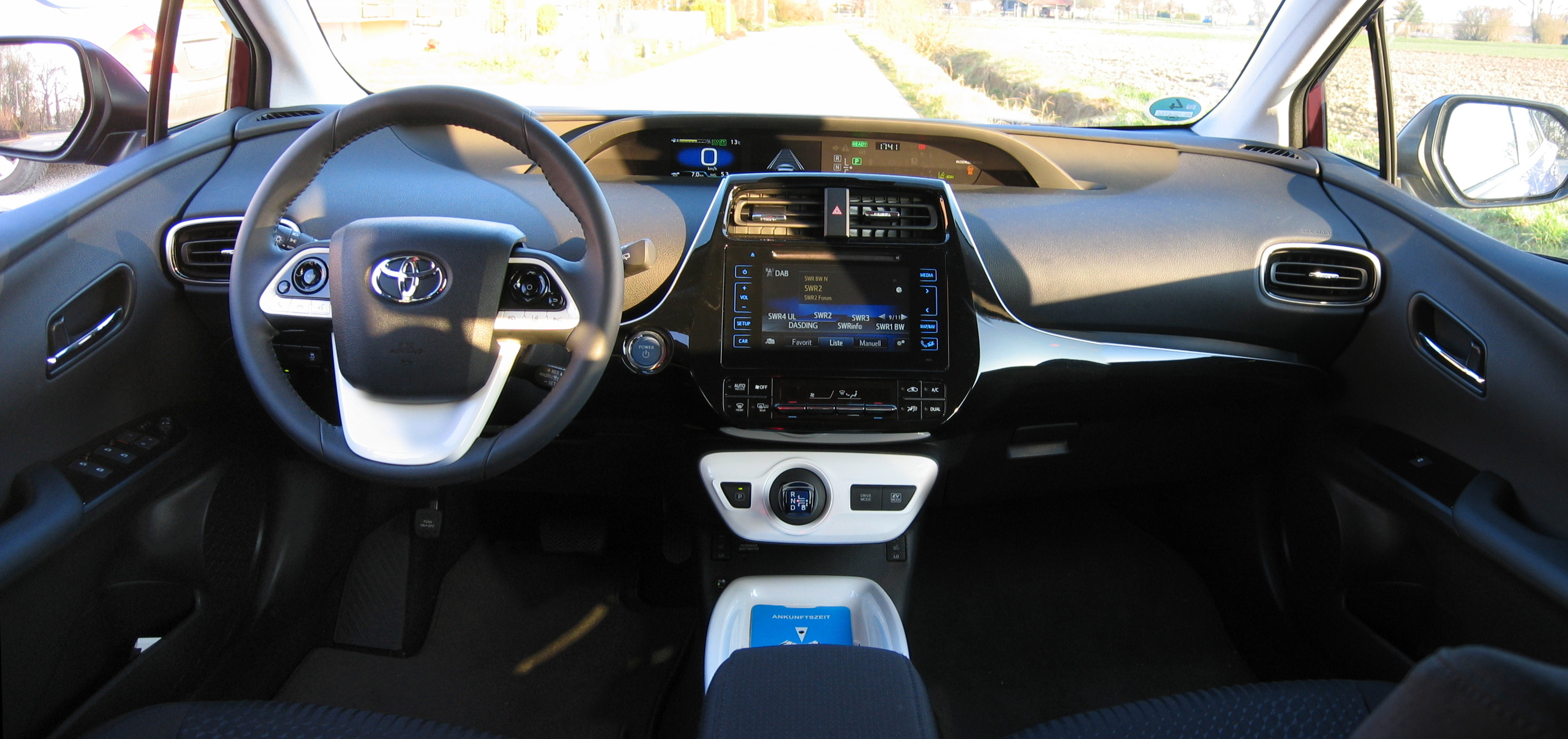 Toyota Prius 4 Dashboard